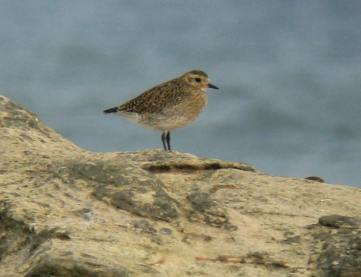 European Golden Plover Pluvialis apricaria, winter plumage, St Mary's Island, Northumberland, UK